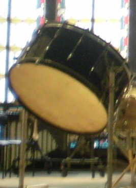 Orchestral bass drum